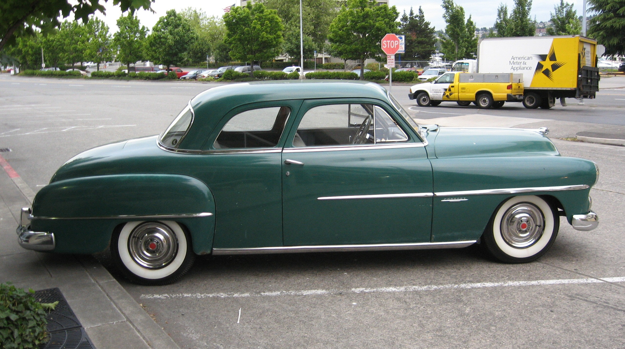 1951 Dodge Coronet coupe